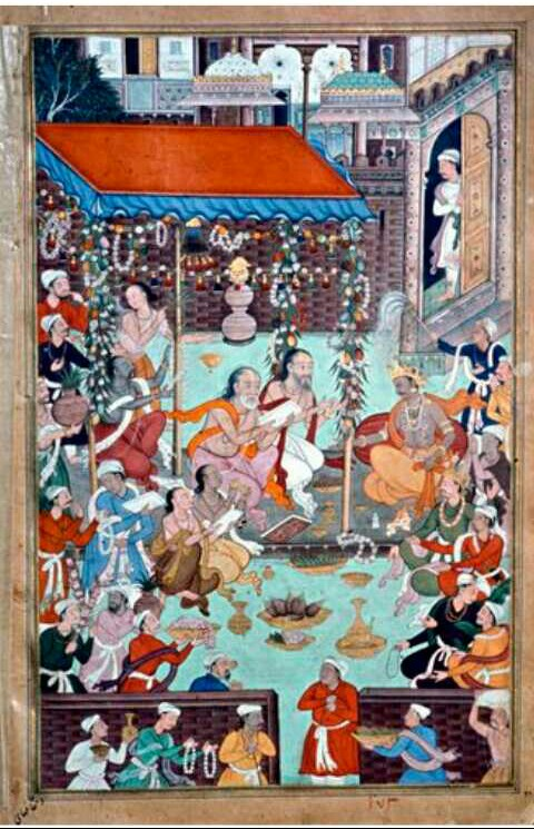 Episode of Uttrakanda